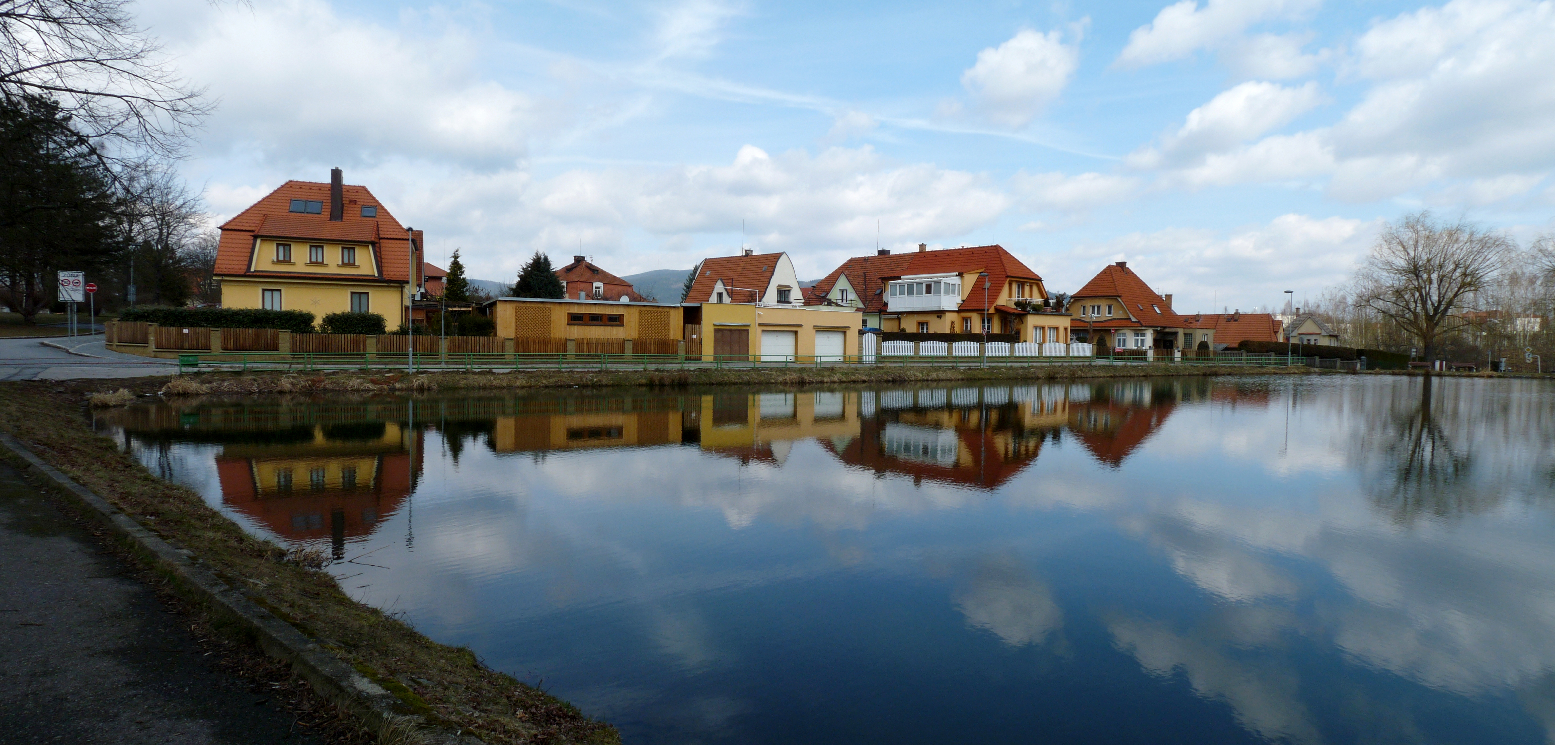 Hornobranský pond, Český Krumlov, South Bohemian Region, Czech Republic.